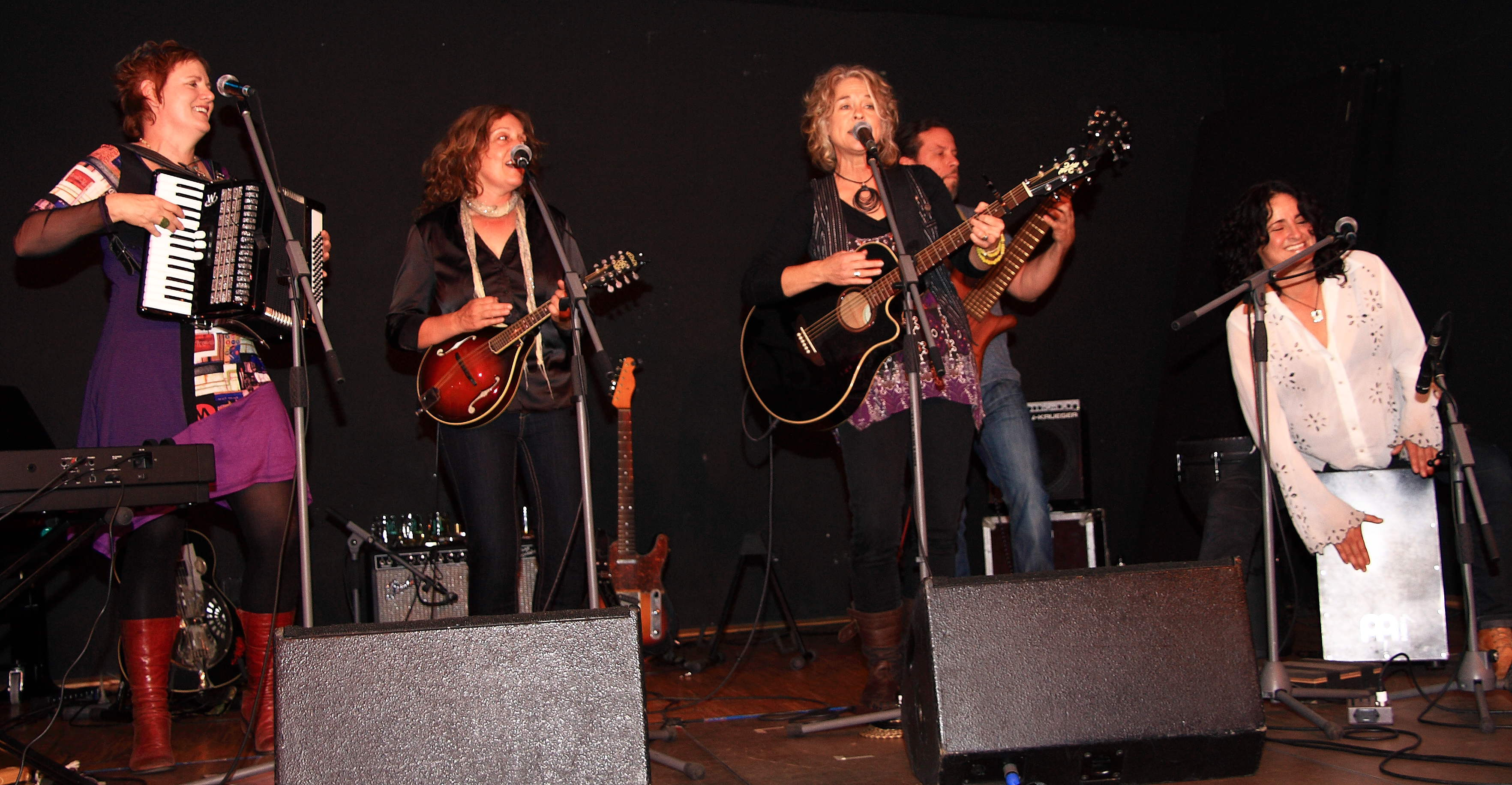 Blame Sally at Kult, Niederstetten, Germany.